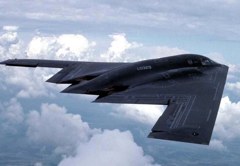 B-2 rear view